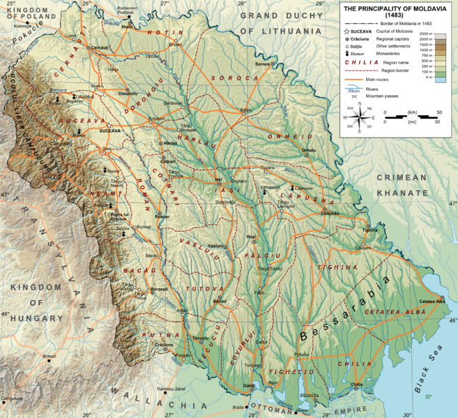 Moldavia 1483 verified